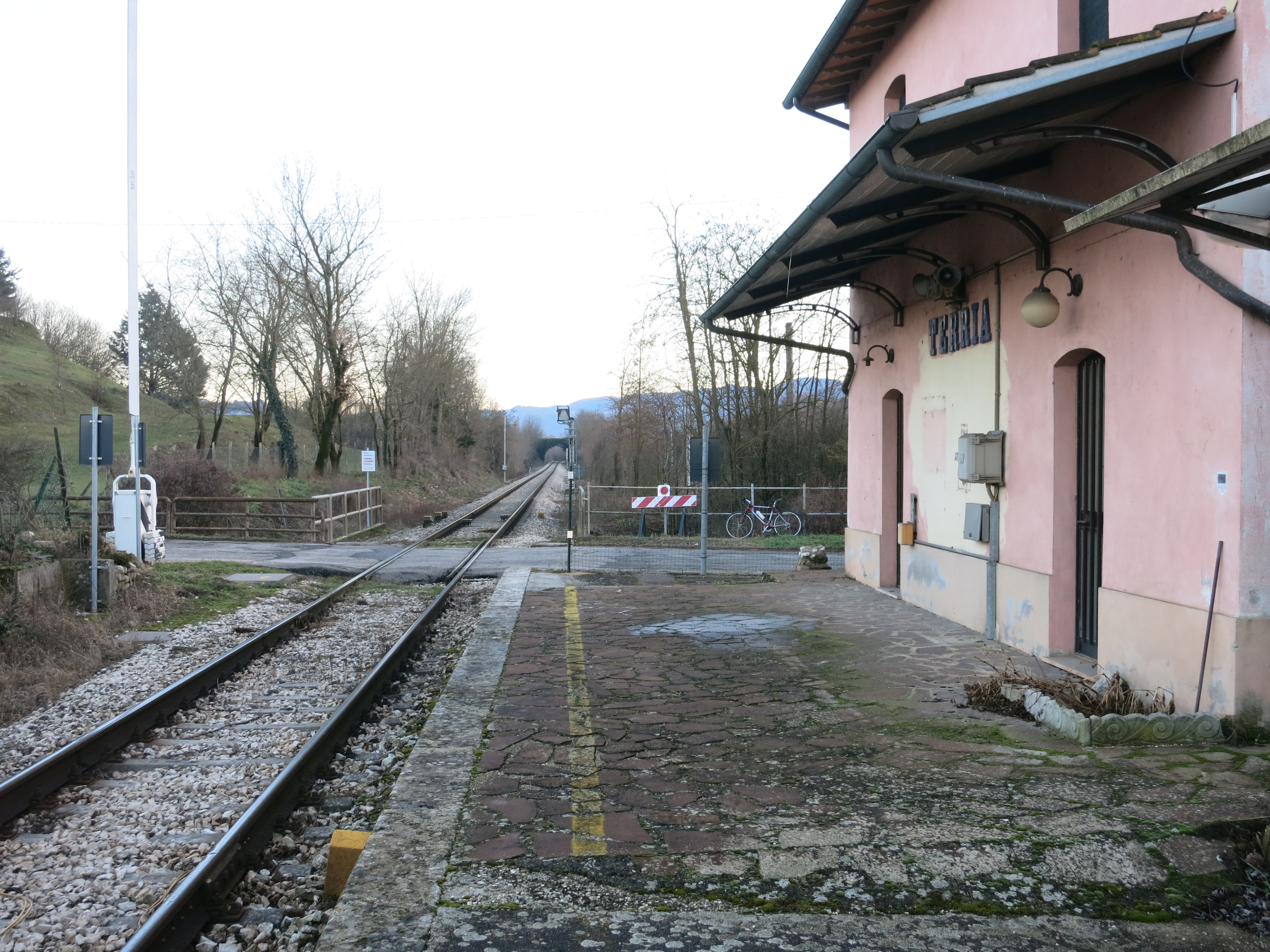 Terria train station - province of Rieti, Lazio, Italy.